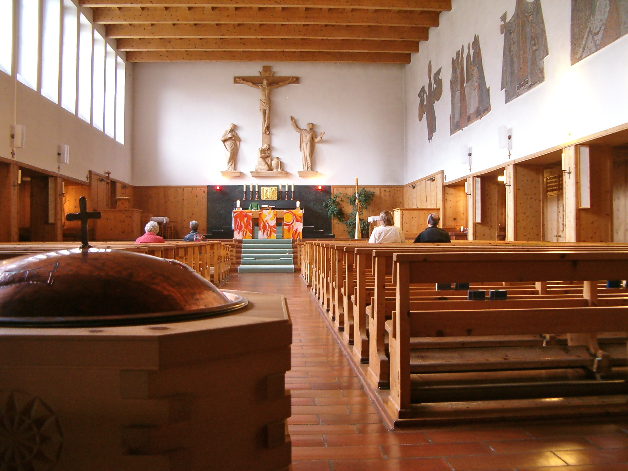 Catholic Church in Arosa/Switzerland